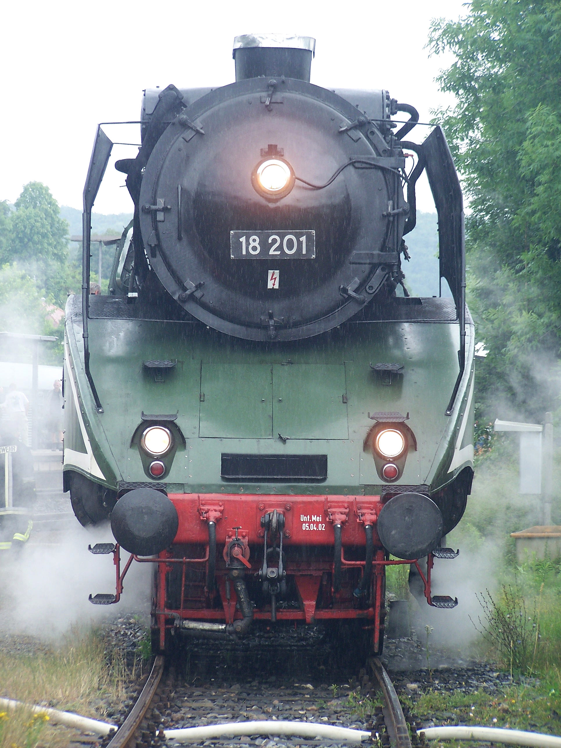 fastest operating steam locomotive of the world 18201 in Hersbruck, Germany, June 30th, 2007